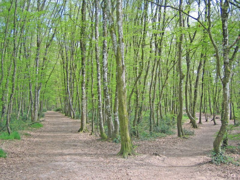 A photograph of the Forêt de Bouconne (Midi-Pyrénées, France).